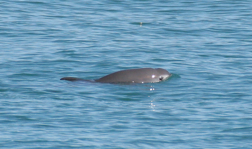 A vaquita. The vaquita (Phocoena sinus) is a critically endangered porpoise species endemic to the northern part of the Gulf of California. It is considered the smallest and most endangered cetacean in the world. Vaquita photo taken under permit (Oficio No. DR/488/08) from the Secretaria de Medio Ambiente y Recursos Naturales (SEMARNAT), within a natural protected area subject to special management and decreed as such by the Mexican Government. The original NOAA image has been modified by cropping.